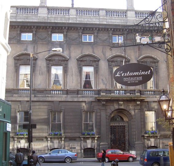 The Garrick Club, Garrick Street, London. 1861 by Frederick Marrable in an Italianate style. Seen before the external cleaning of the building which was completed in February 2006.